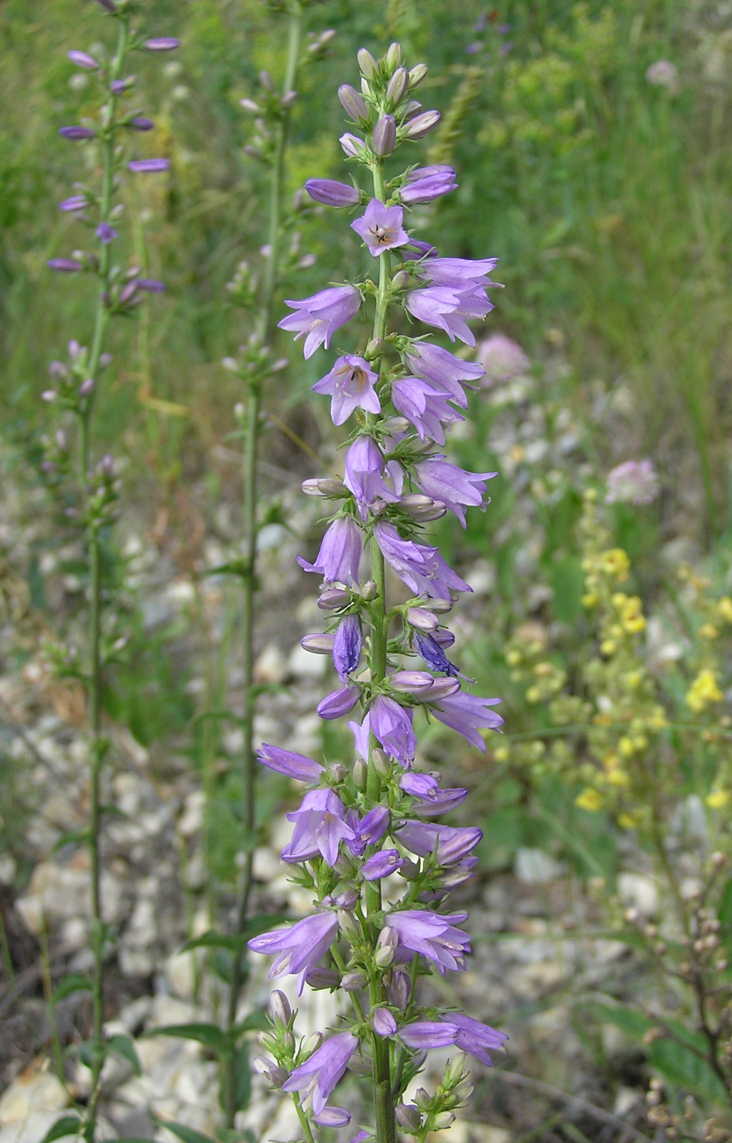 Inflorescence of Campanula bononiensis L. Habitat: south-eastern rocky slope. Vicinity of Saratov city, Russia.